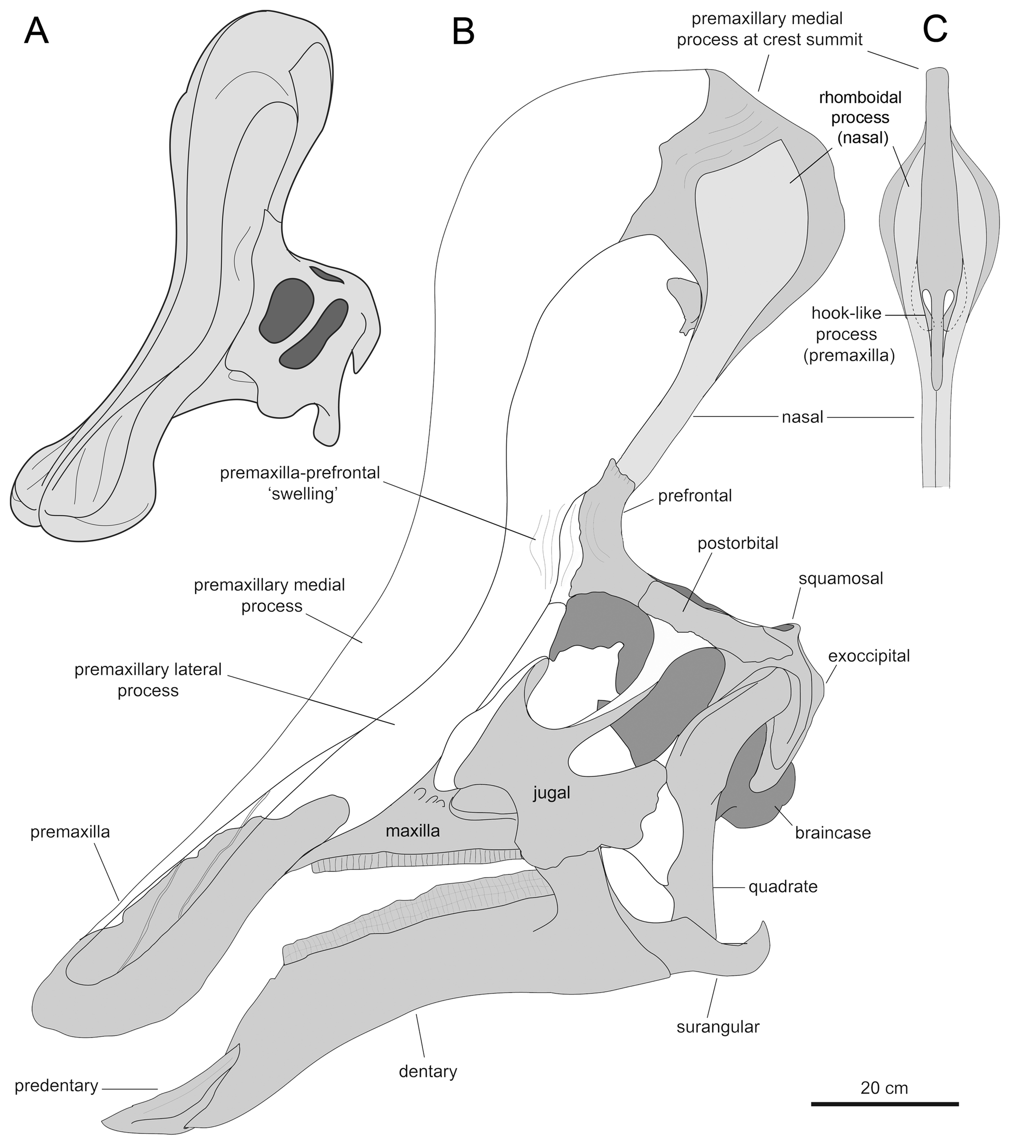 Anatomical model of the cranium and supracranial crest of Tsintaosaurus spinorhinus. A. Model of the skull in rostrolateral view. B. Lateral view of the model based on IVPP V723, V725, V829, and K107. C. Caudal view of the dorsal region of the crest. In B and C, grey areas indicate the available bones; white areas are missing bones and hypothesized reconstructions of missing parts of bones.